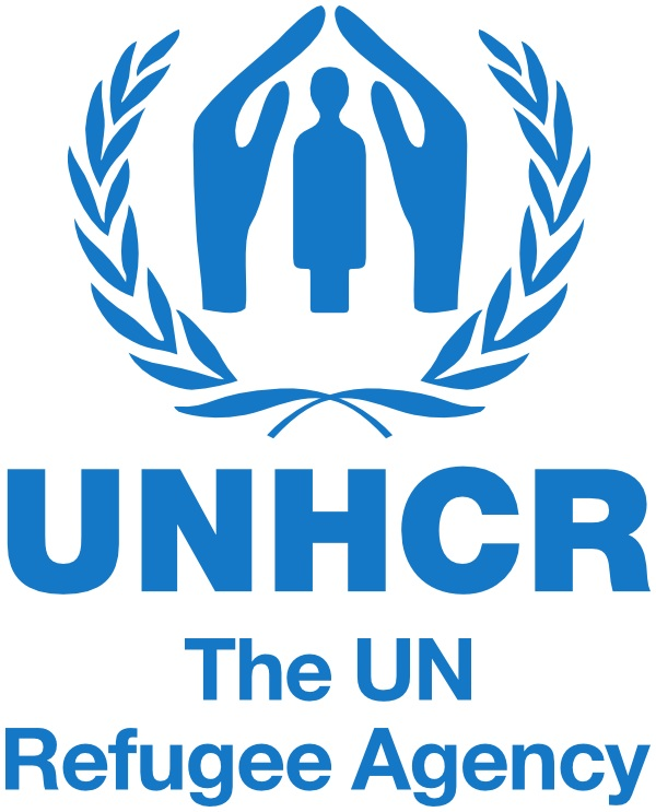 Flag of United Nations Refugee Agency